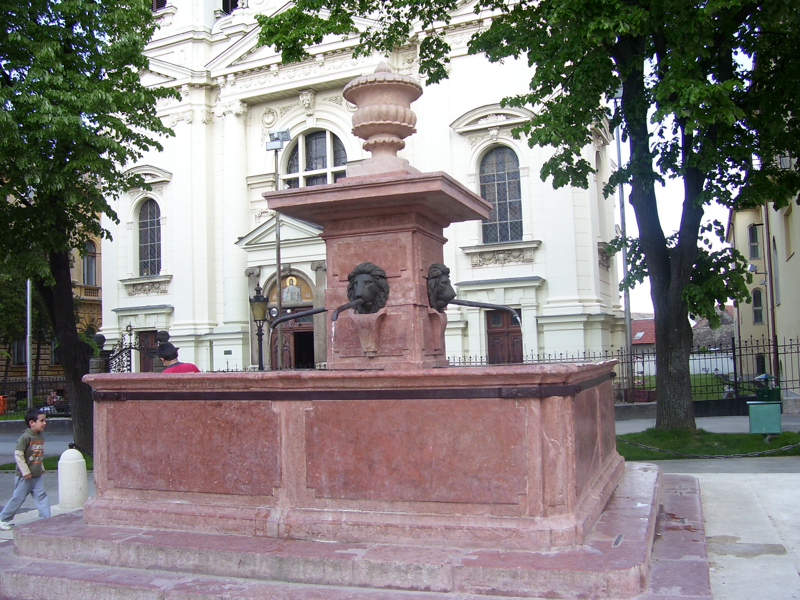 Fountain "Four Lions" after renovations. Sremski Karlovci, Serbia